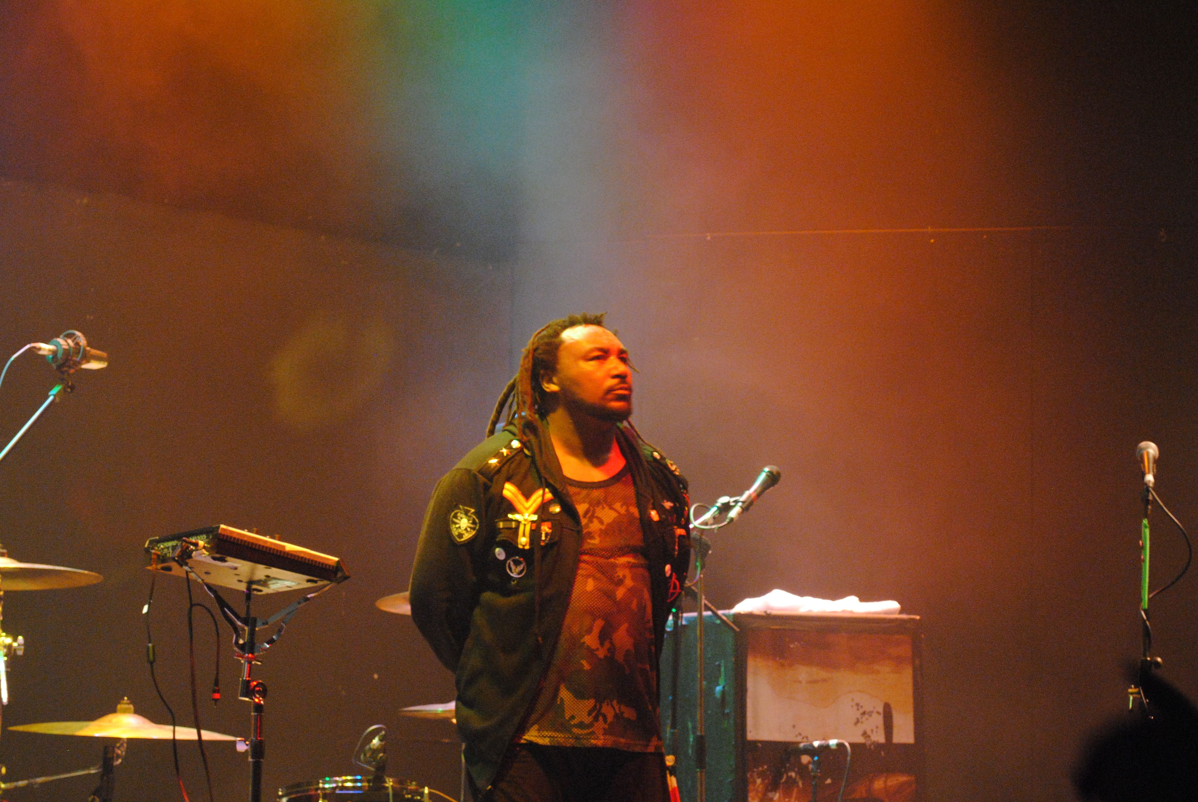 Benji Webbe from skindred at the quake club, Woking on 12/03/2010